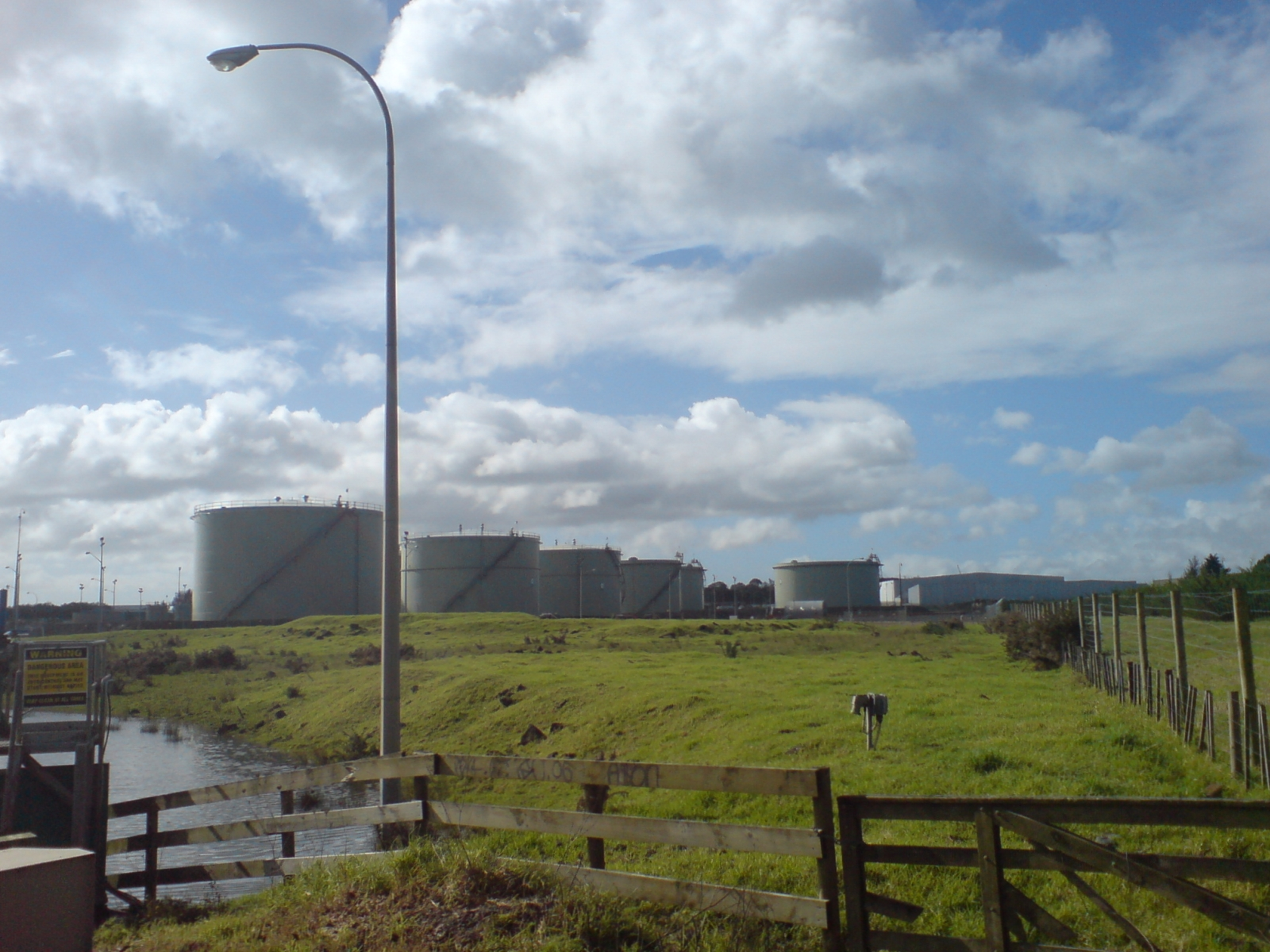 Oil storage tanks in Wiri, Manukau City, New Zealand. Looking roughly southeasterly.